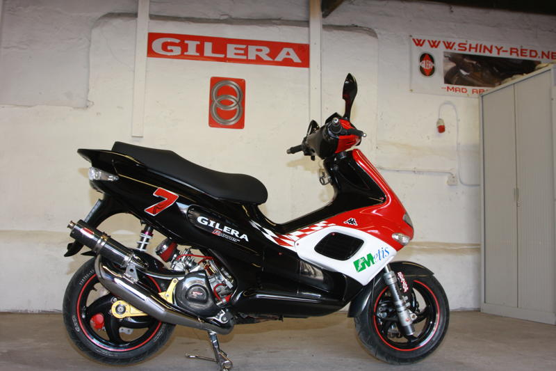 Gilera Runner 183